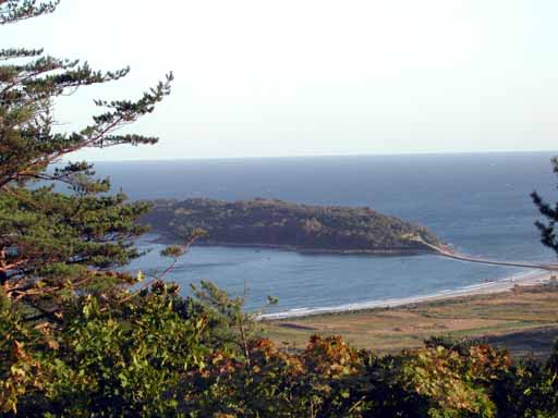 Photo of Bipaseom (Pipasom) in Rason City, DPRK. Taken in September 2003.